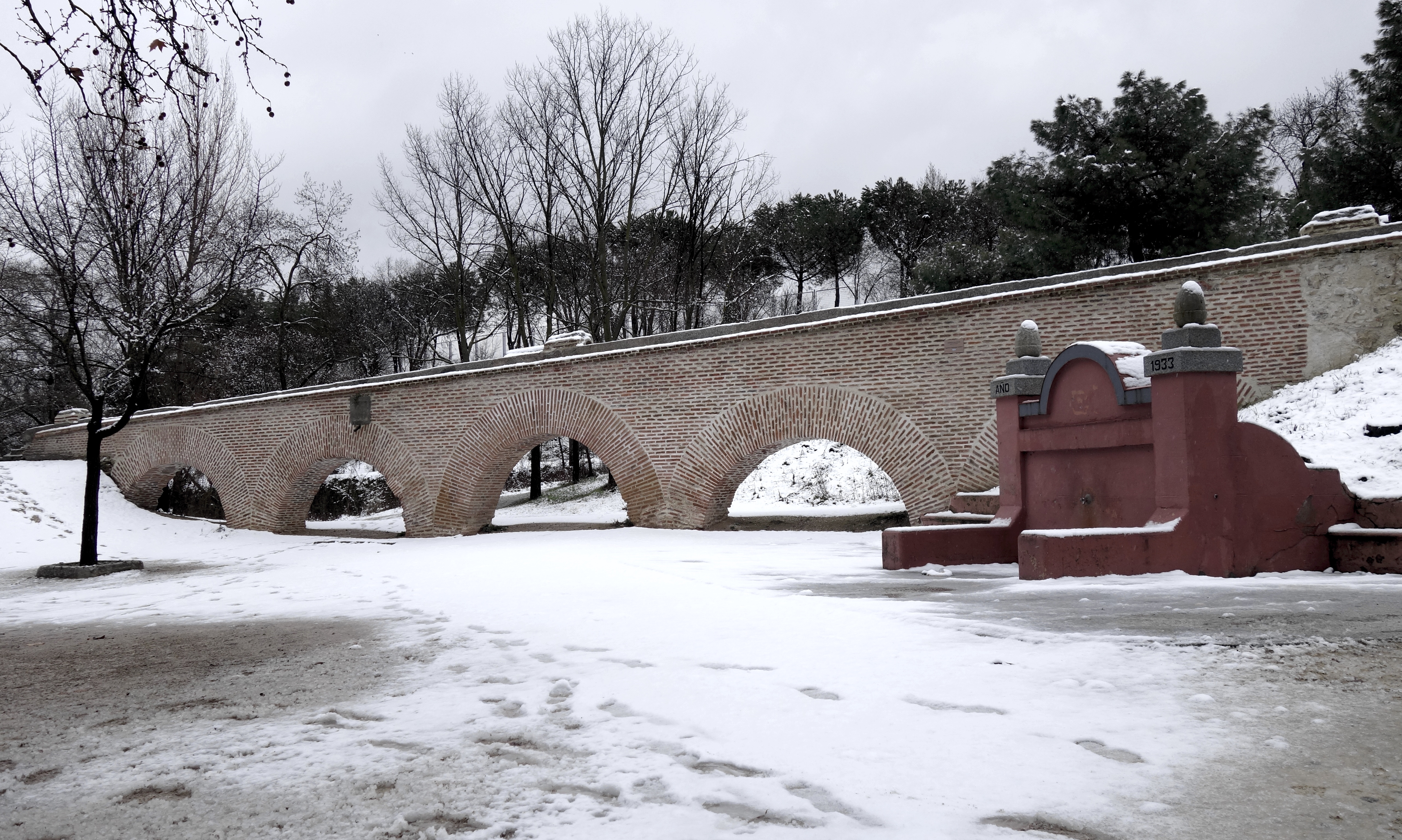 Aqueduct of Sabatini in Madrid. Built in 1778.